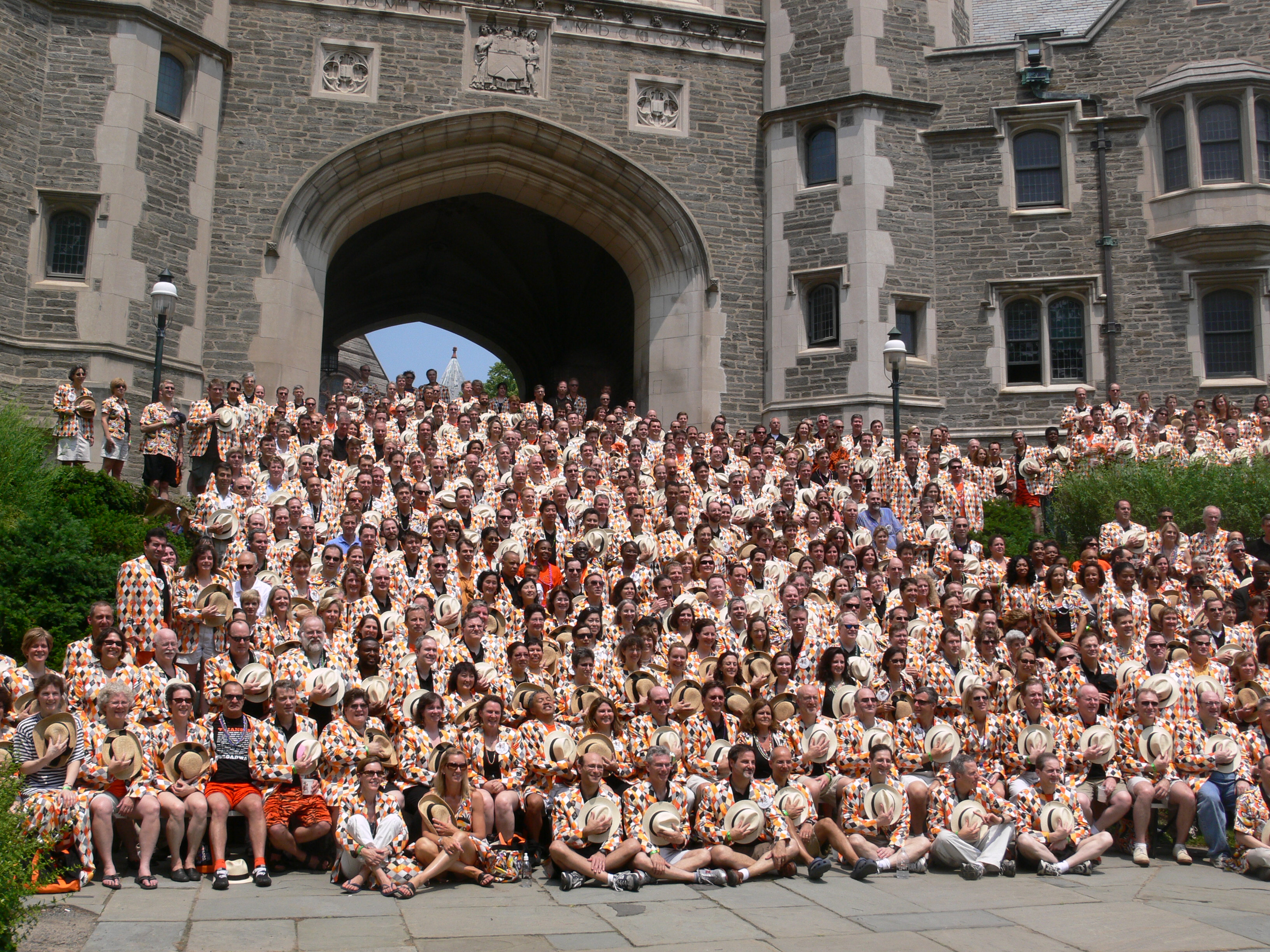 (inofficial and incomplete) group photo of the Princeton Class of '82 at their 25th reunion in 2007 (in front of Blair Arch, before the P-Rade starts), wearing reunion jackets and hats Princeton University; Princeton, New Jersey